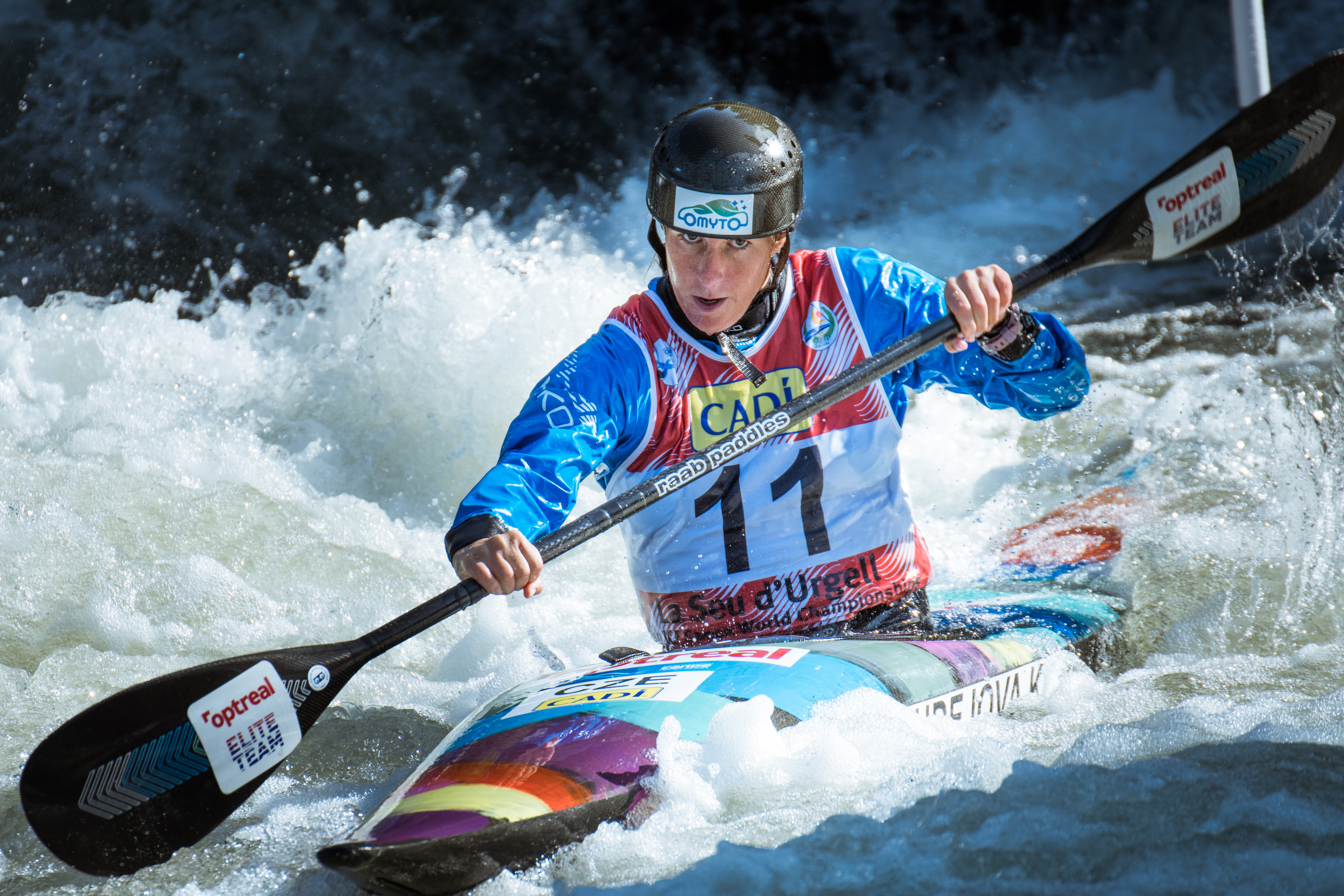 Kateřina Kudějová during the 2019 Canoe Slalom World Championships in La Seu d'Urgell, Spain.